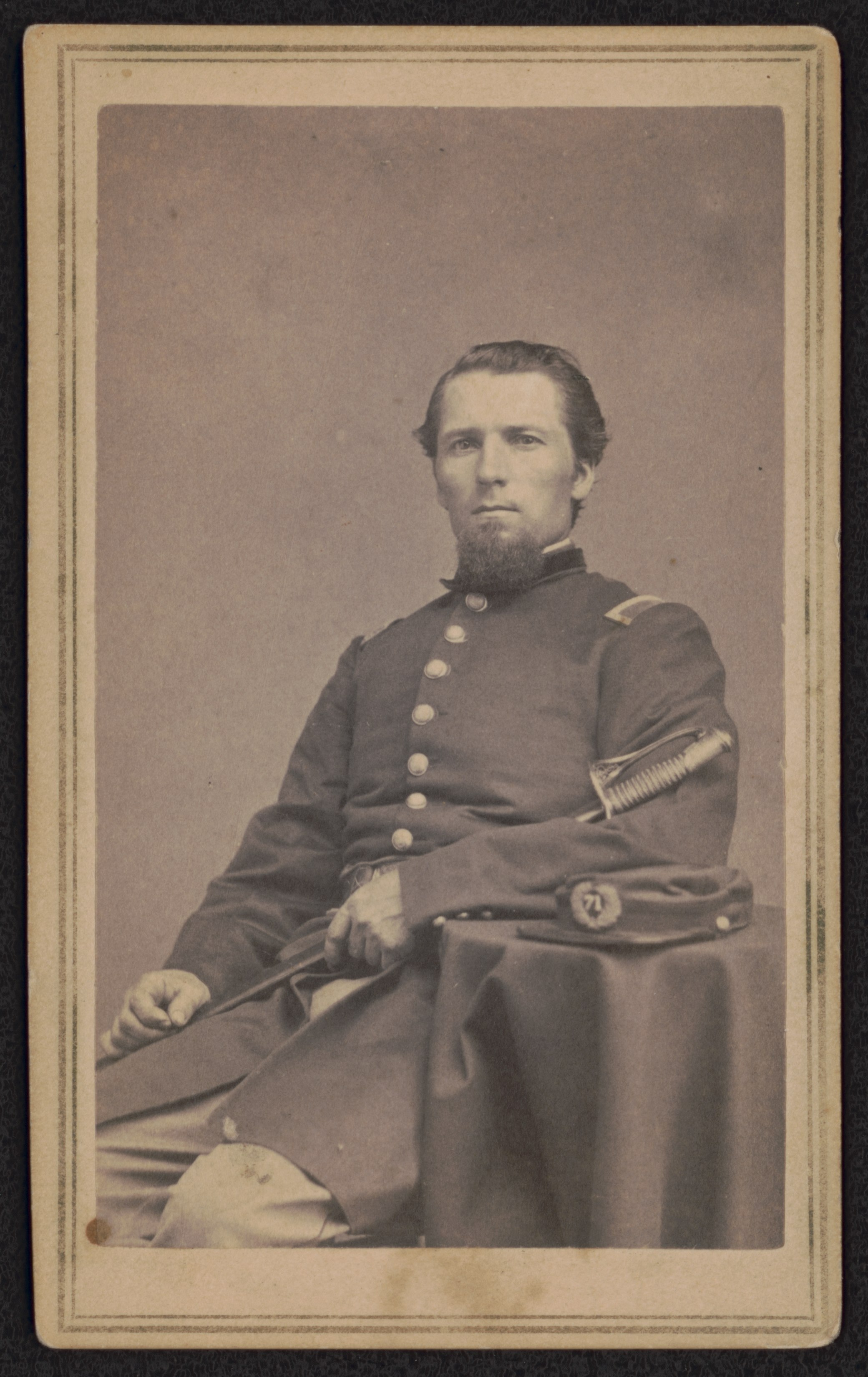 Title: Private Eli F. Bruce of Co. E, 71st New York Infantry Regiment in uniform with sword] / Bogardus, photographer, 363 Broadway, cor. Franklin St., New York Abstract/medium: 1 photograph : albumen print on card mount ; mount 10 x 7 cm (carte de visite format)